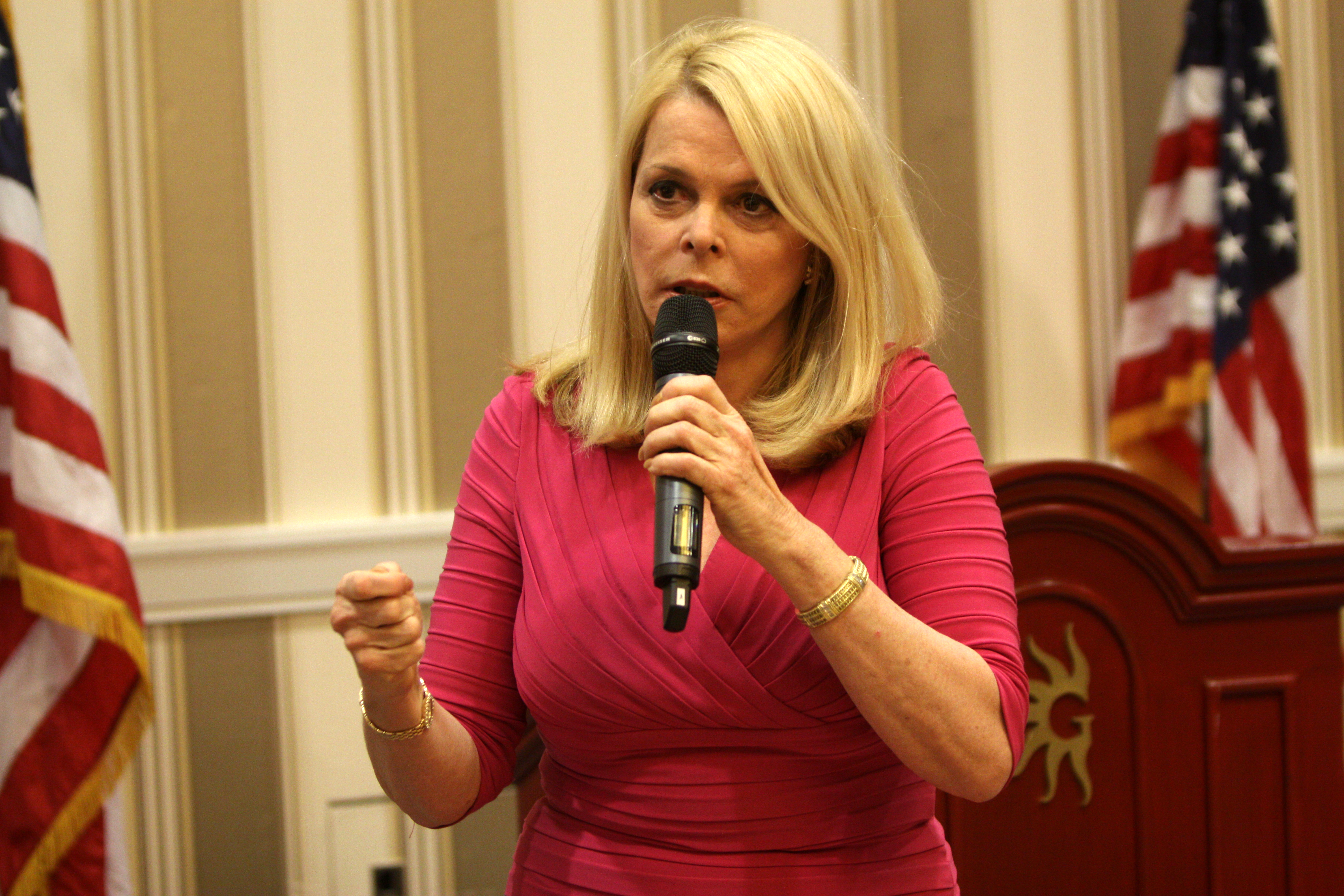 Former Lieutenant Governor Betsy McCaughey of New York speaking at the 2013 Conservative Political Action Conference (CPAC) in National Harbor, Maryland.